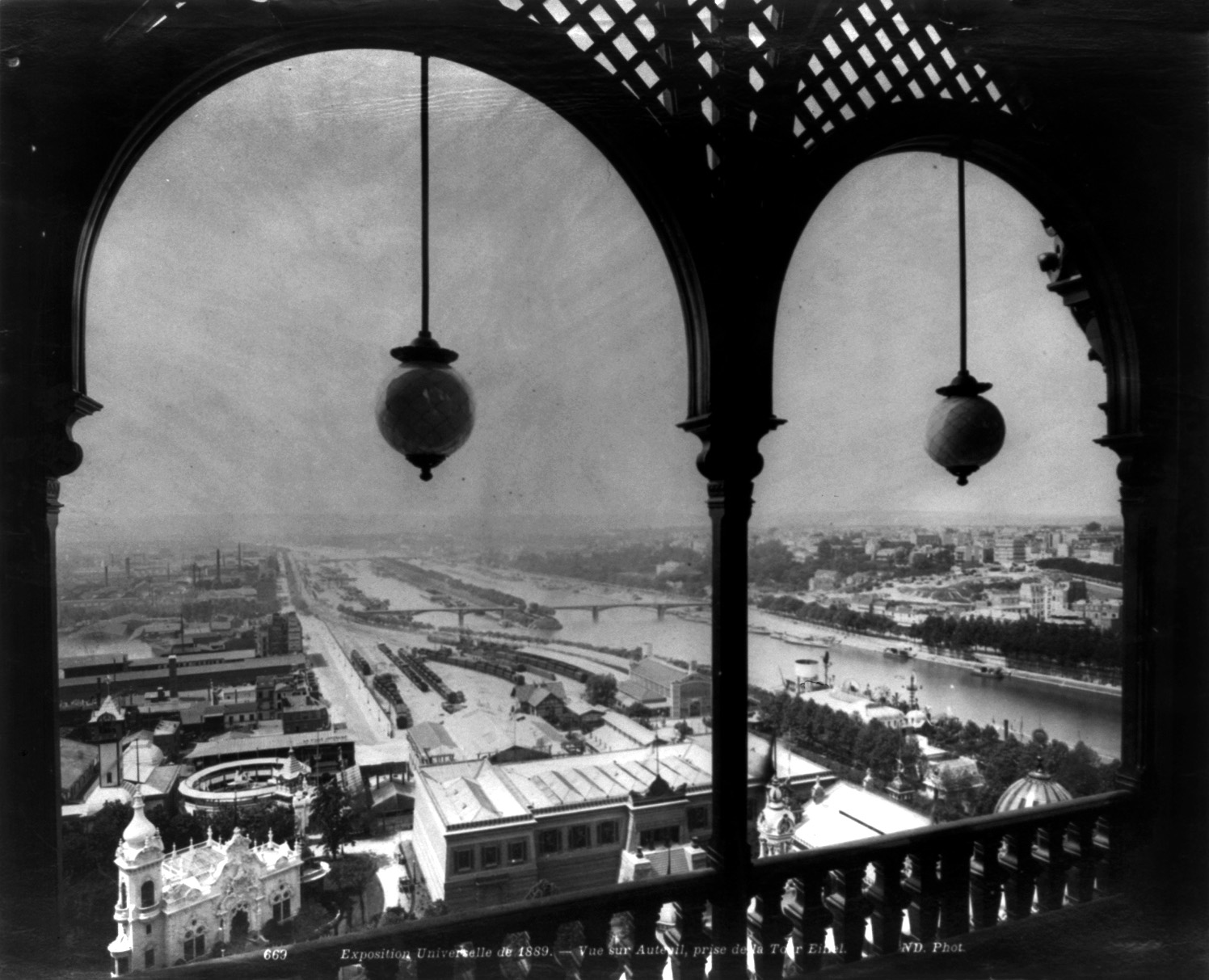 660. Exposition Universelle de 1889. -- Vue sur Auteuil, prise de la Tour Eiffel. ND. Phot. View of the Exposition Universelle on the Champ de Mars with Seine on the right, taken from arched balcony of Eiffel tower, Paris, 1889.